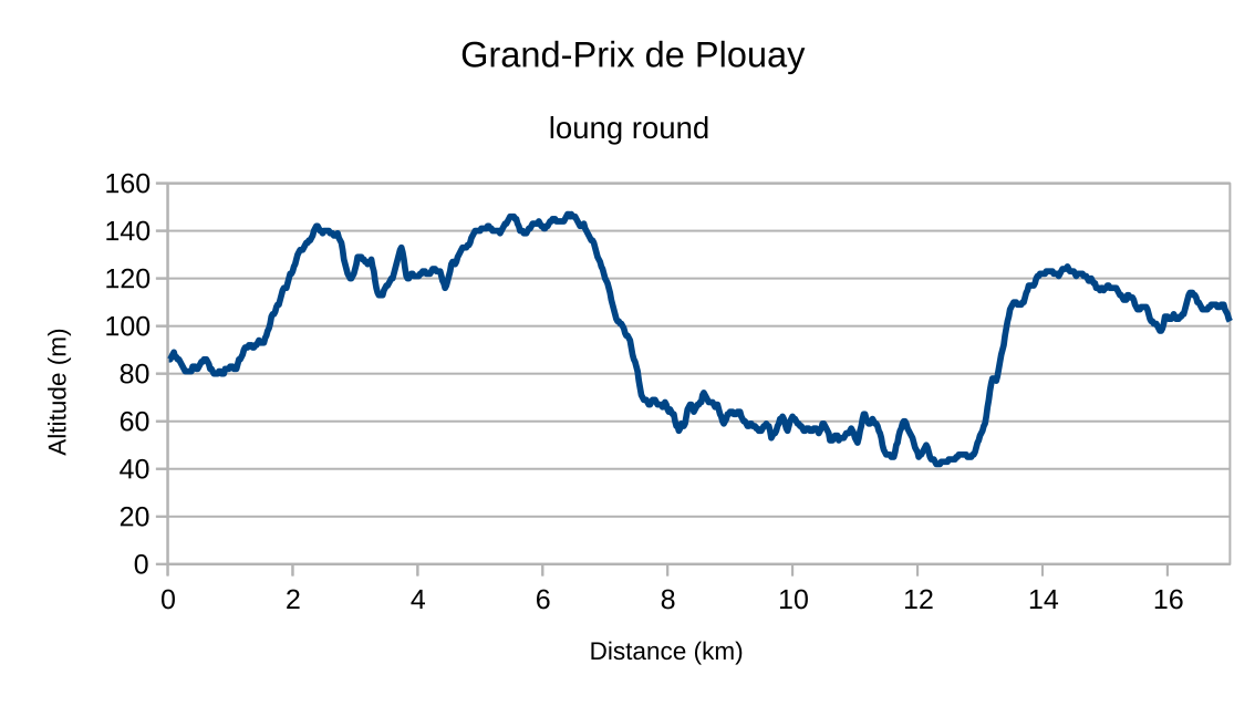 Profil du Grand Prix de Plouay 2019, long tour.